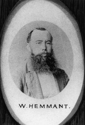 William Hemmant was an Politician in the Brisbane area Australia